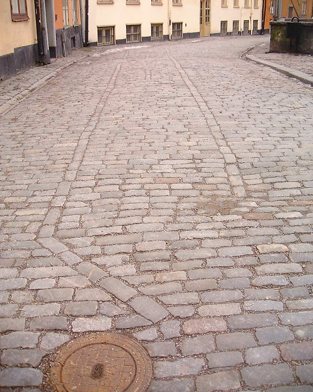 Pattern of paving stones at Prästgatan indicating the former extent of the Blackfriars monastery. Gamla stan, Stockholm.